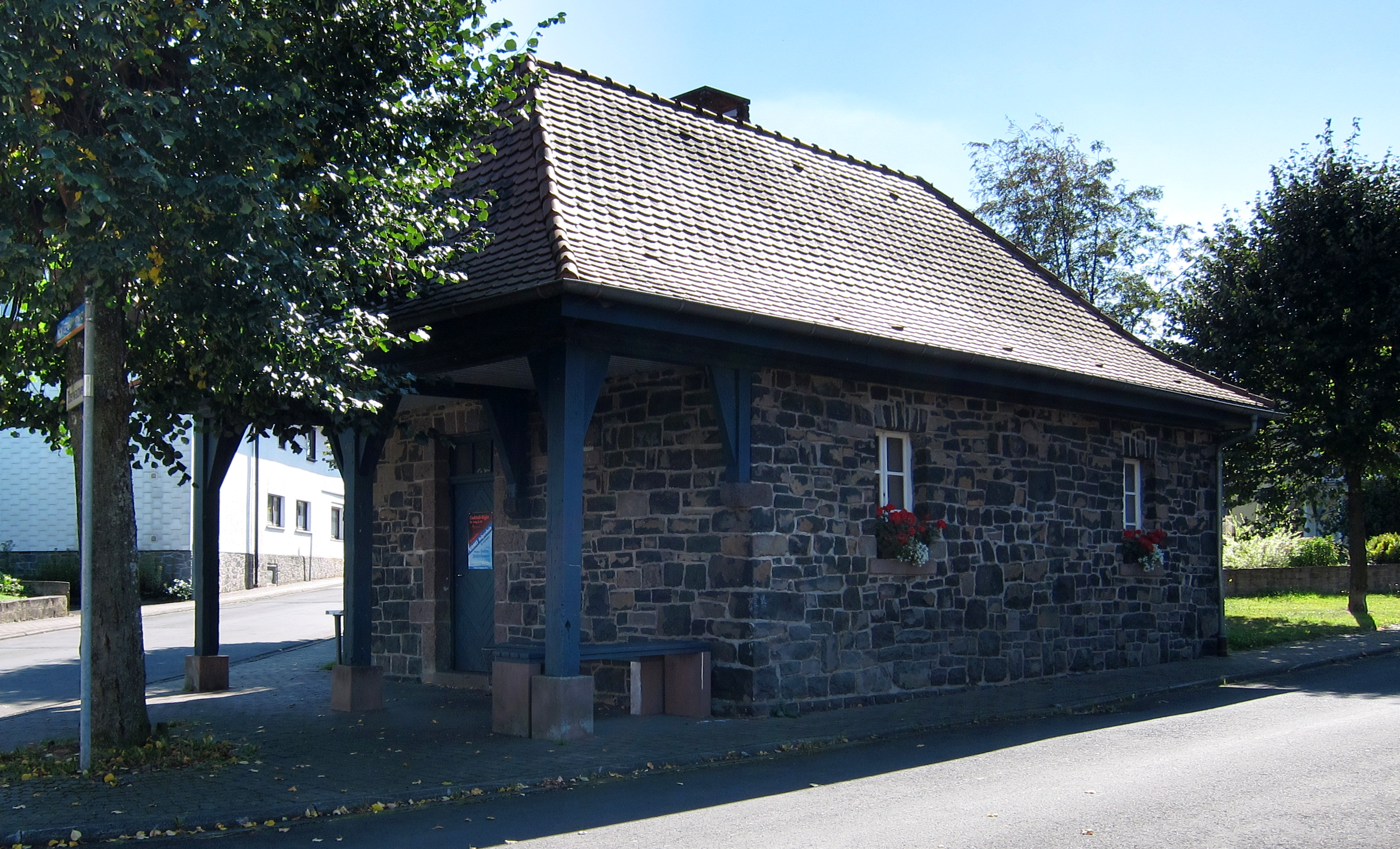 Oberes Backhaus (bake house) in Engelrod, Lautertal, Germany - constructed ca. 1920